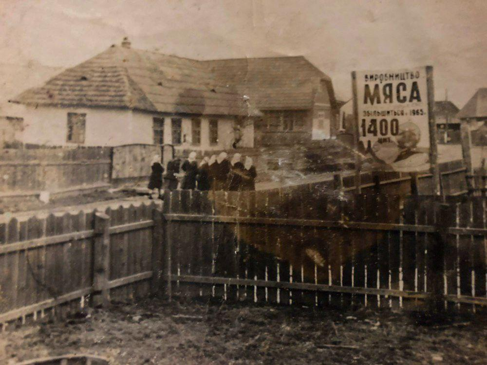 Kryva